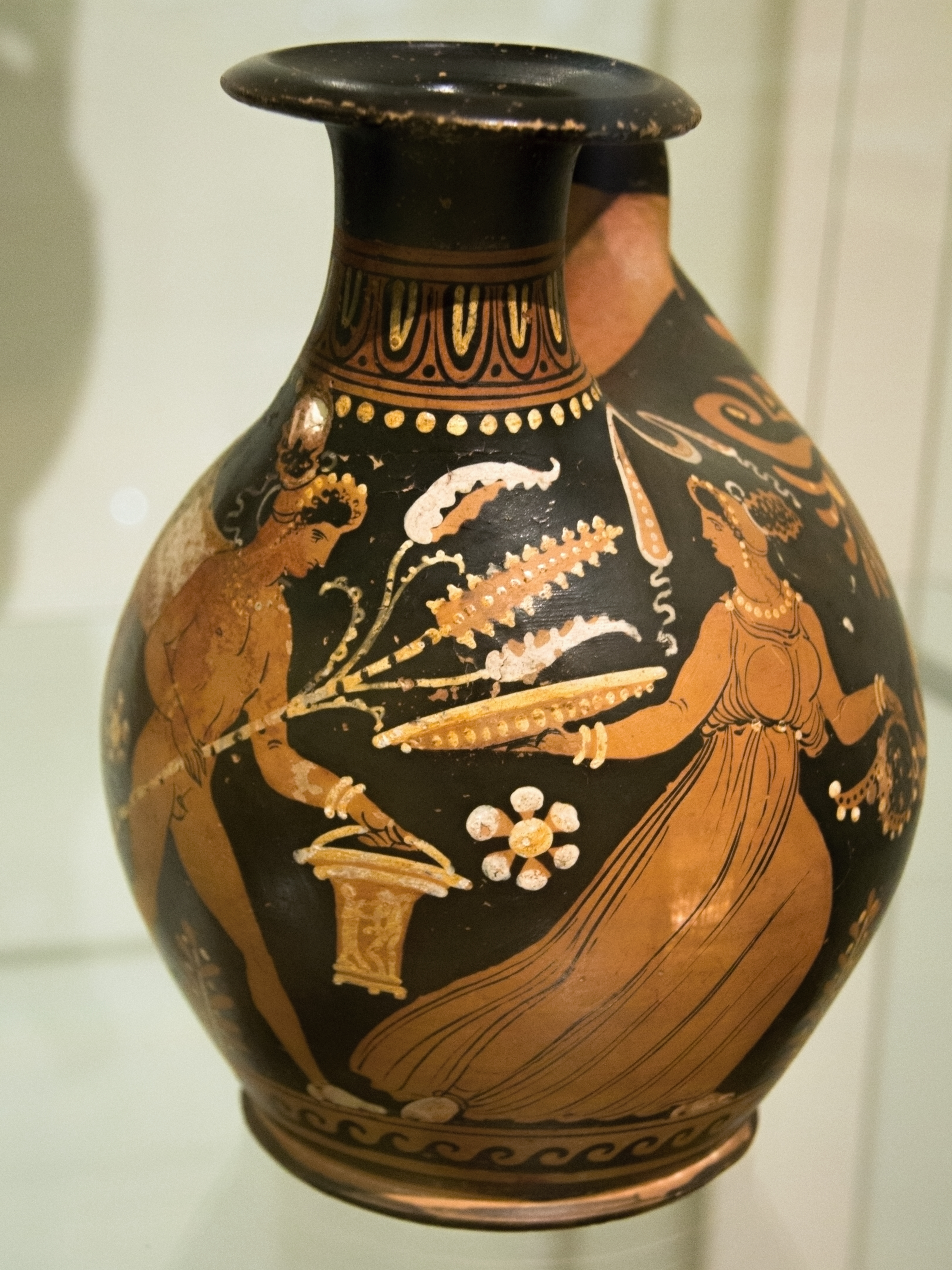 Eros with a thyrsos and a basket runs to a woman carrying offerings. The Painting, Ornate style, Askos, 350 to 325 BC. NG Prague, Kinský Palace, NM-H10 2437.